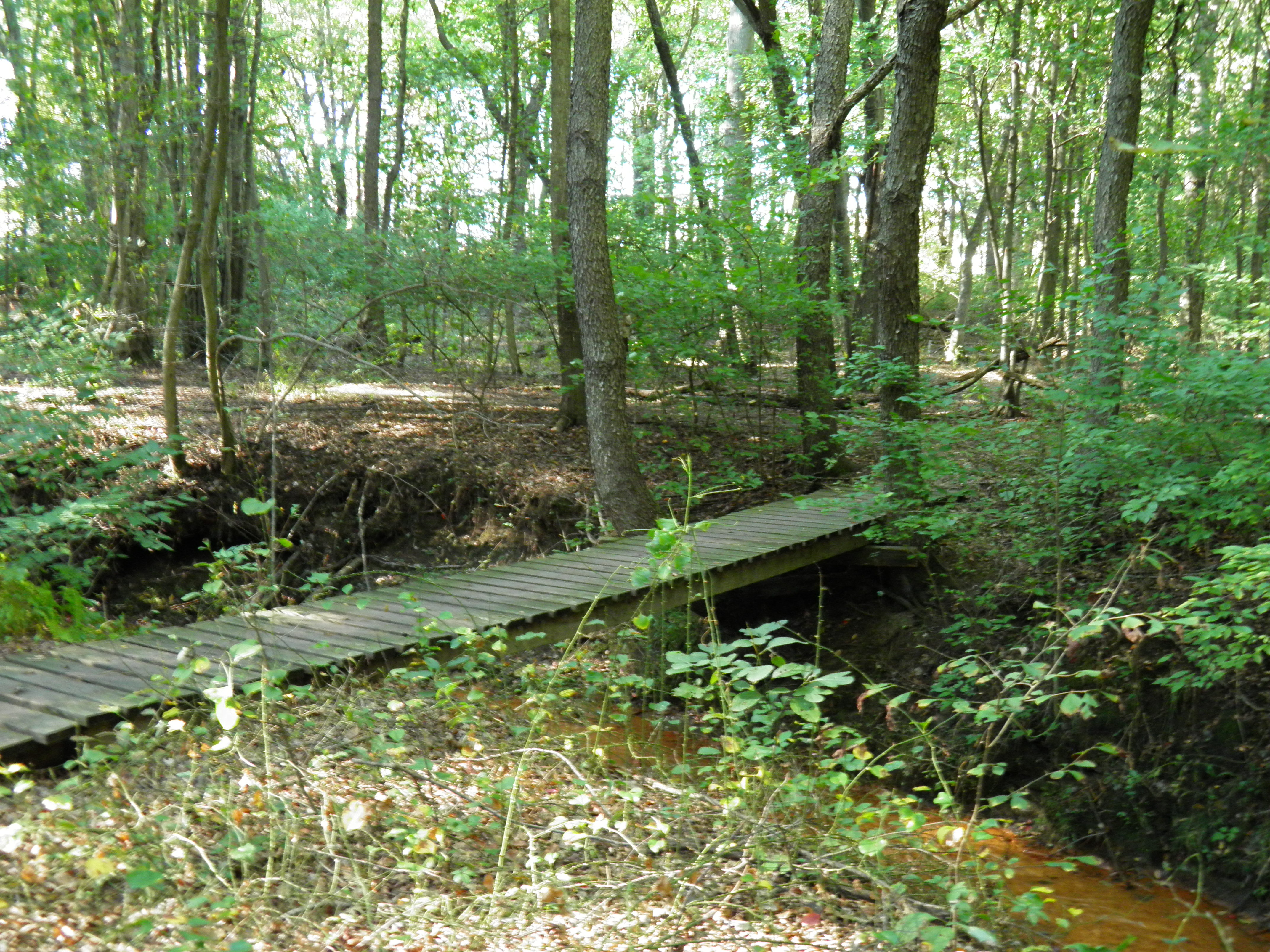 View of a trail on the Gloucester County College campus